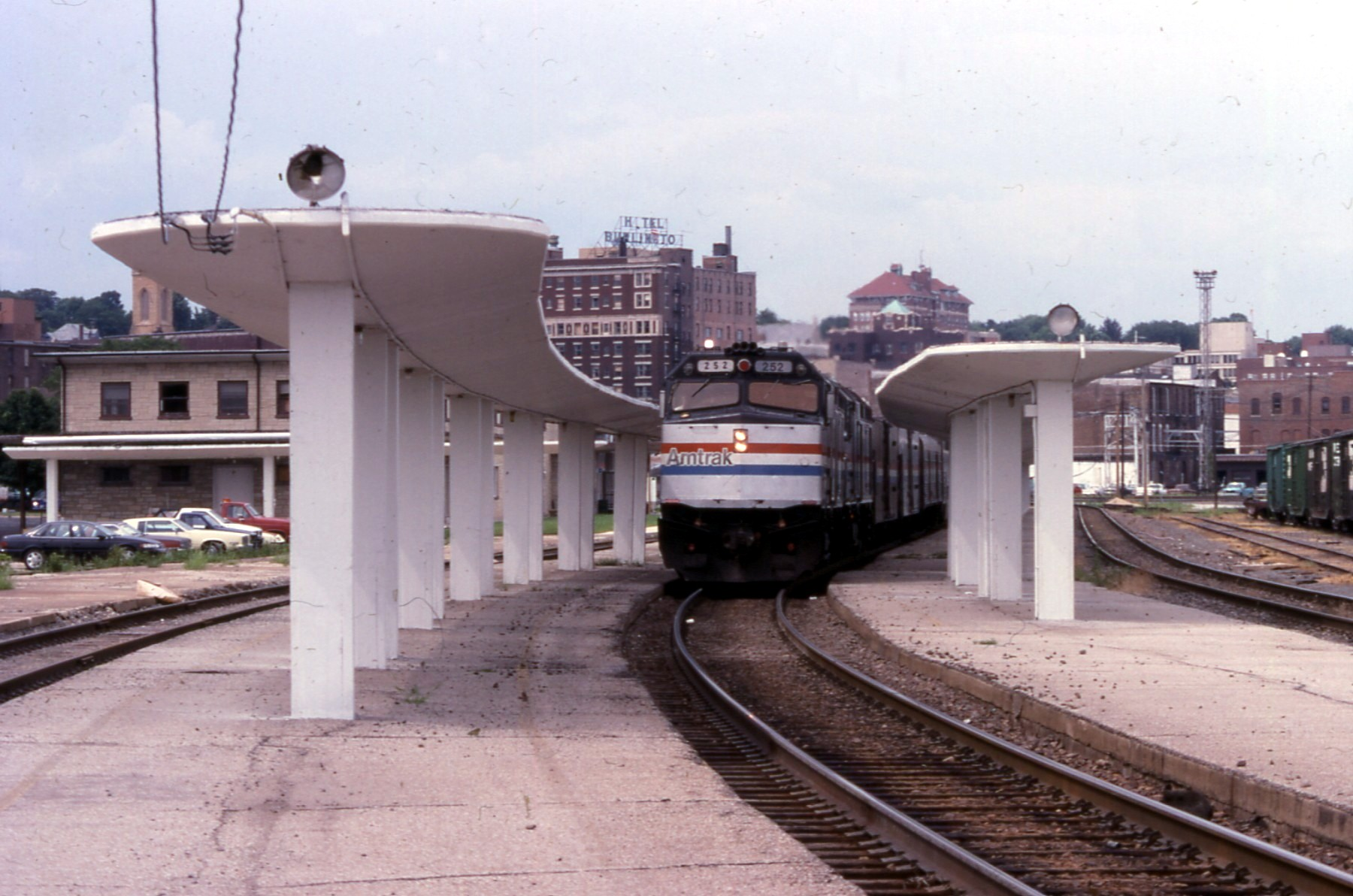 Amtrak's California Zephyr at Burlington, Iowa in 1995. An EMD F40PH is in the lead.